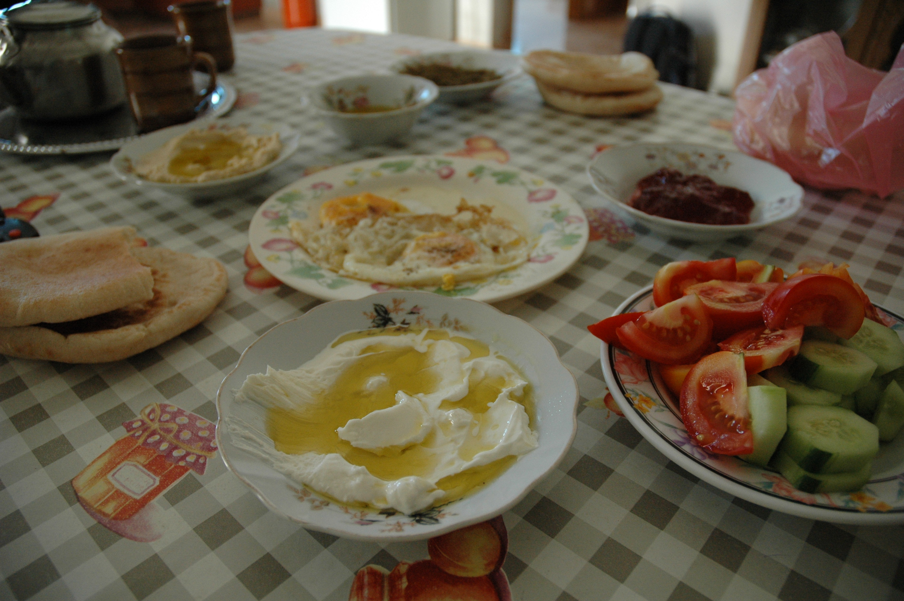 Typical palestinian breakfast with pita, hummus, and labaneh. Labaneh is the white creamy cheese stuff covered with olive oil.